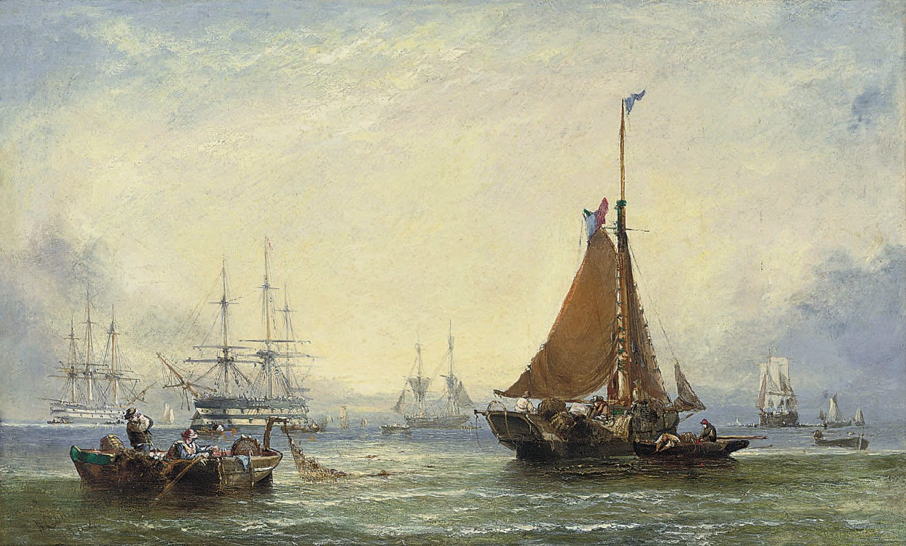 Fishermen drying their sails at the end of the day, Royal Navy two-deckers Anchored Beyond